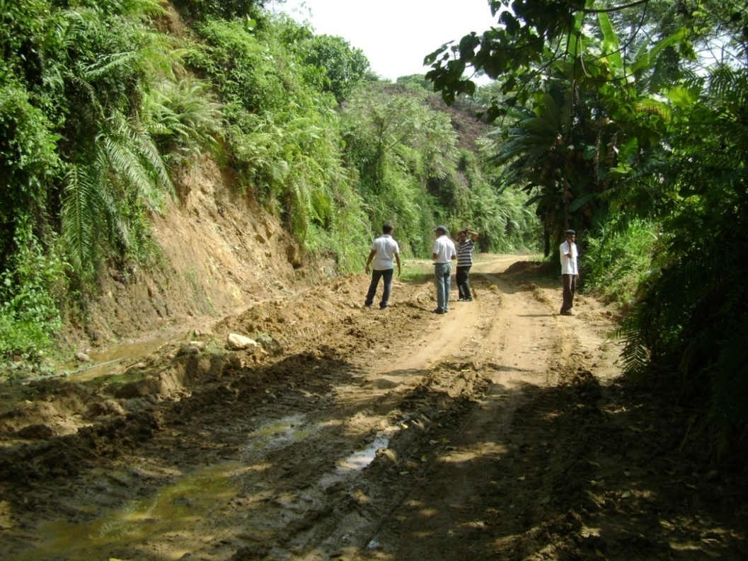 Vallibel